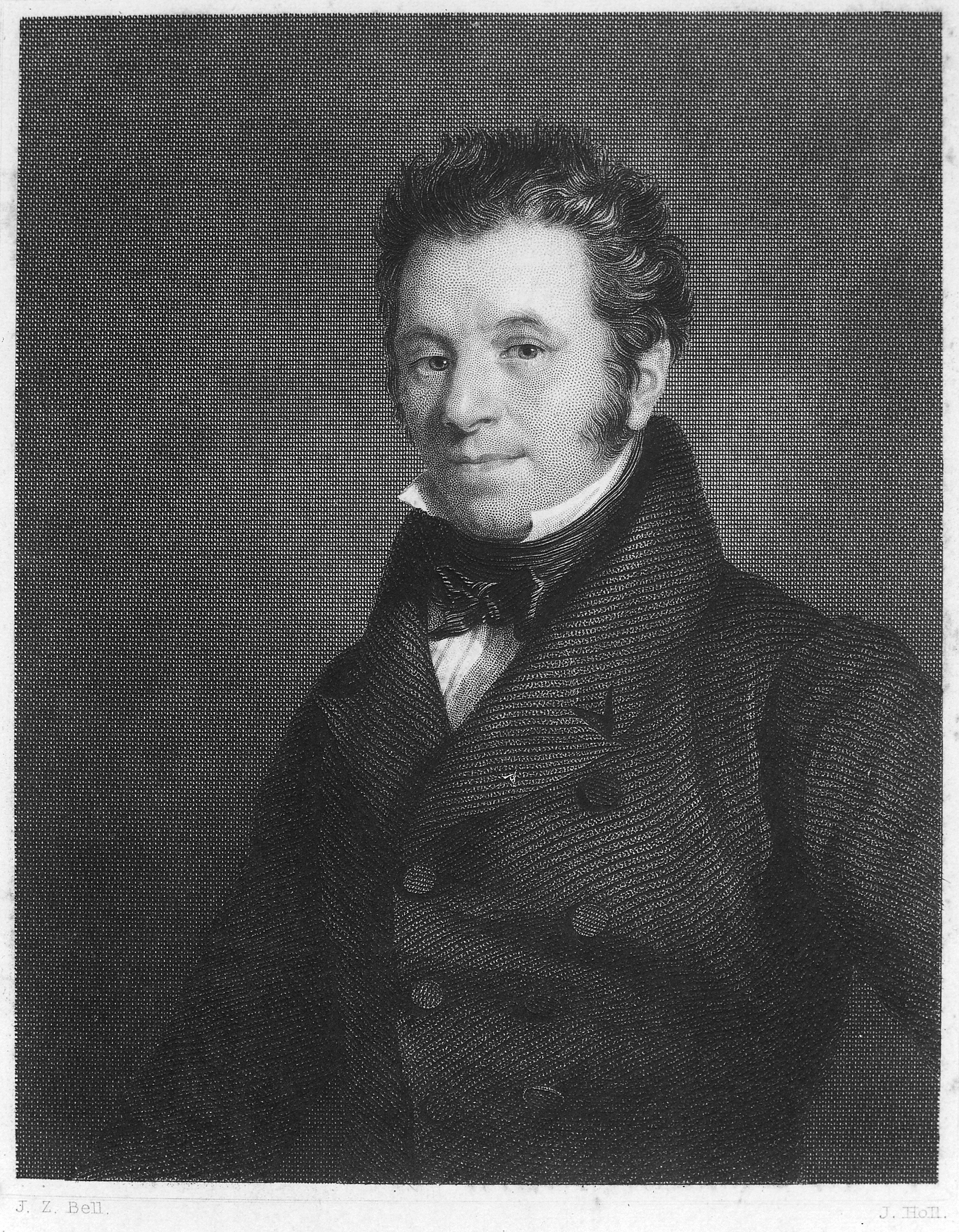 Portrait of Marshall Hall Rare Books Keywords: Hall, Marshall